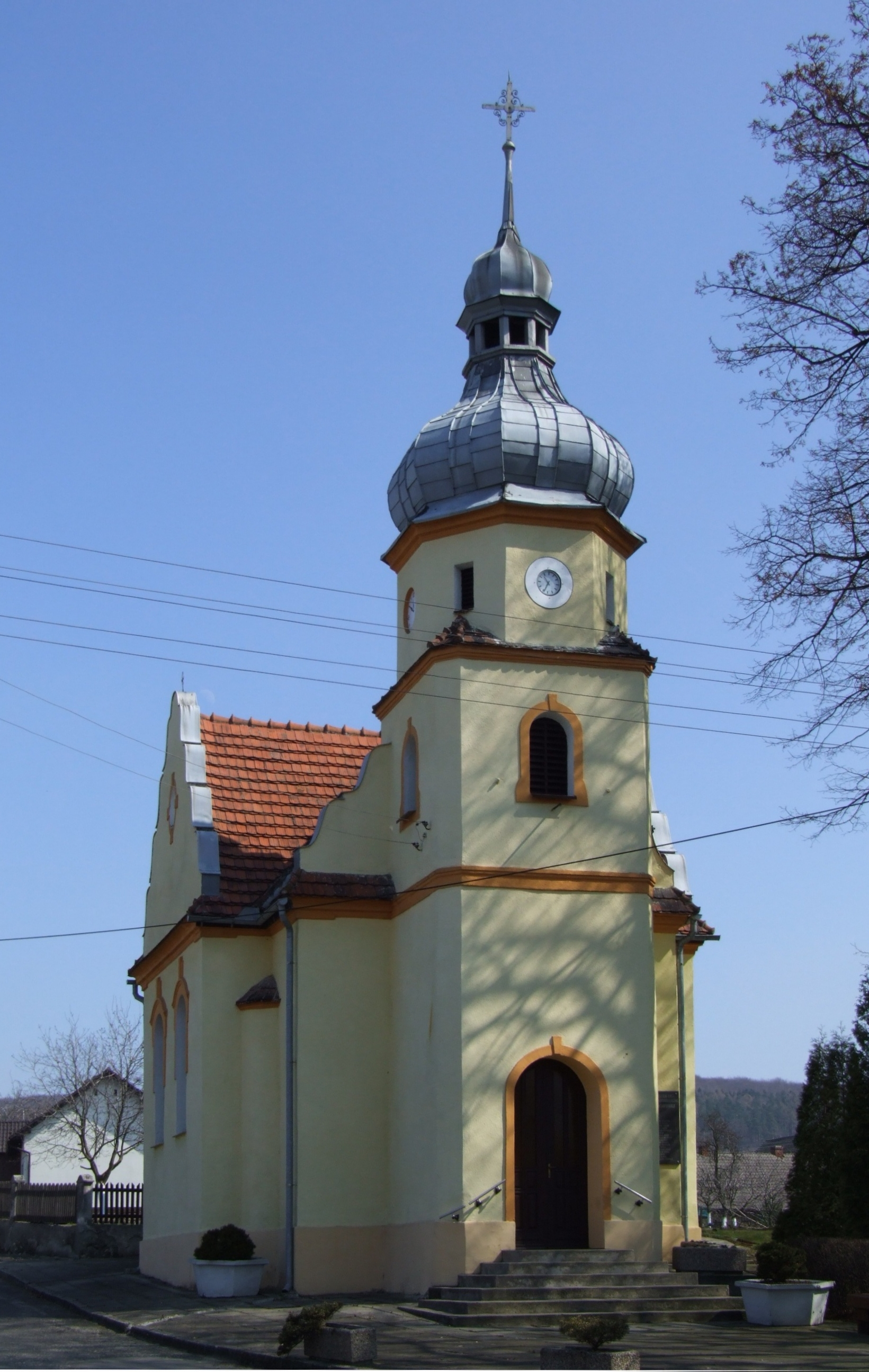 Chapel of the Visitation in Oleszka, Poland